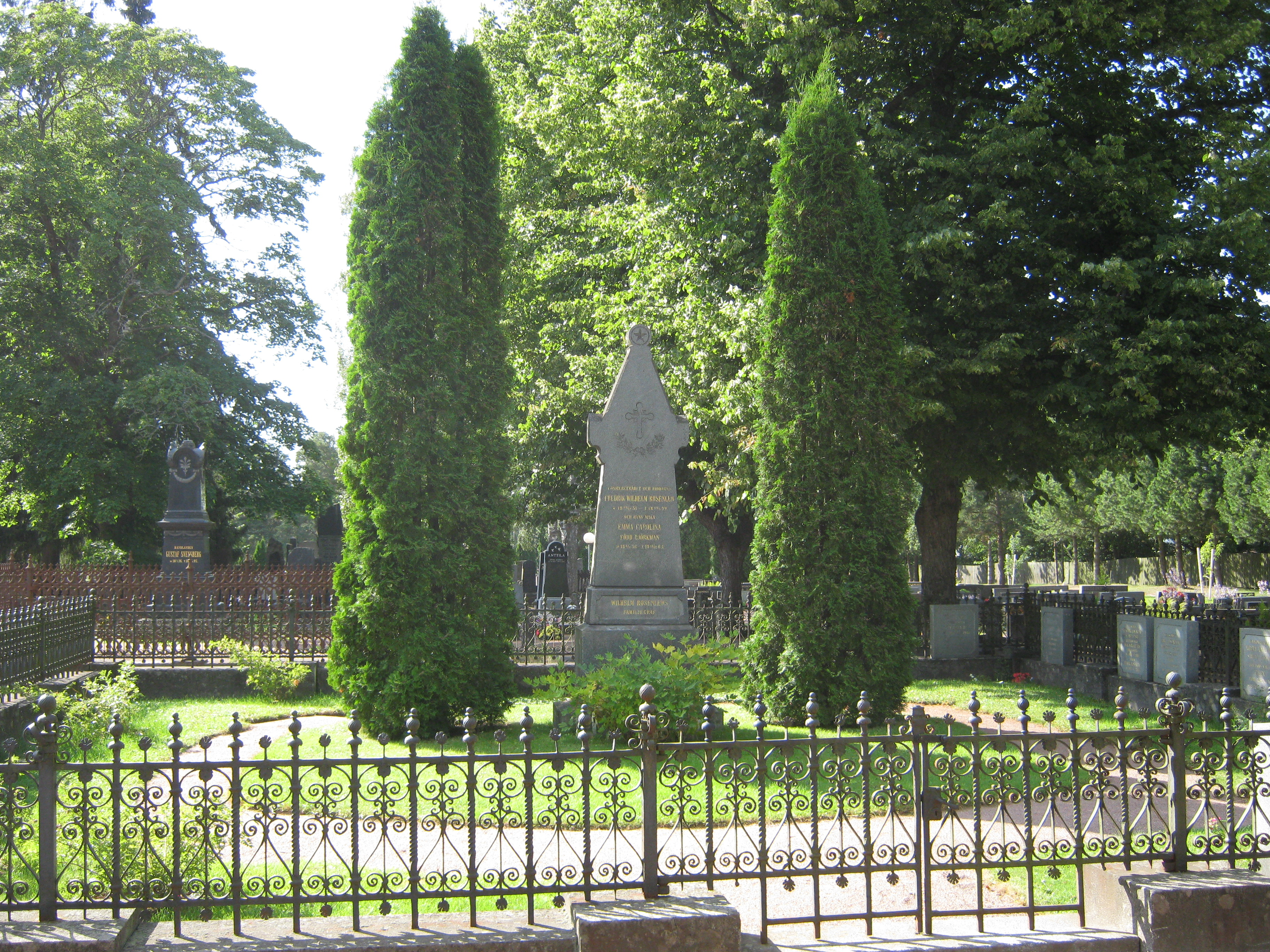 Rosenlew family grave at Käppärä cemetery, Pori, Finland.